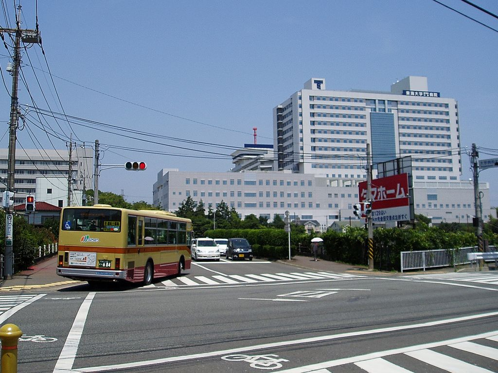 Kanagawa Chuo Kotsu I36 Mitsubishi PJ-MP35JM at Tokai University Hospital